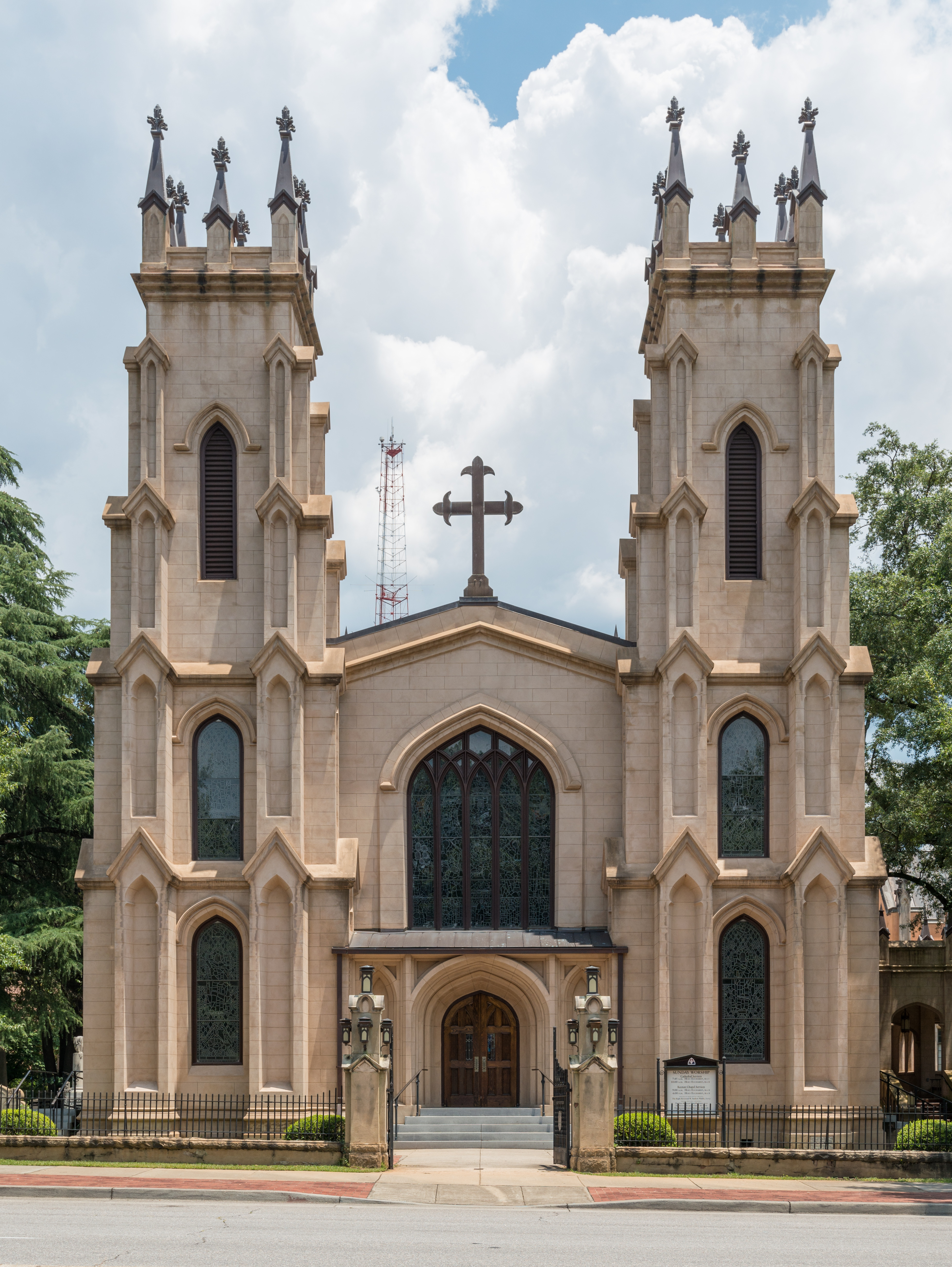 A west view of Trinity Episcopal Cathedral, Columbia, South Carolina